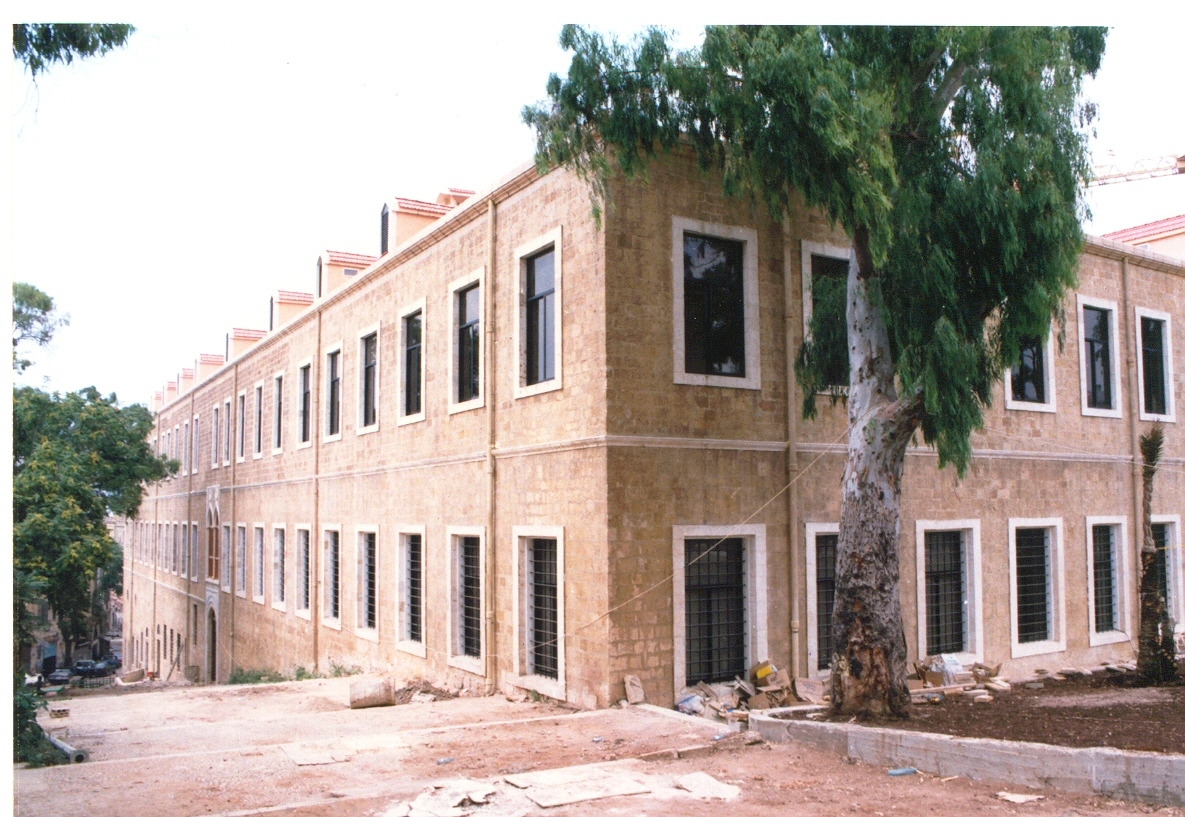 A corner view of the Lebanese Council for Development and Reconstruction building in Beirut, Lebanon.